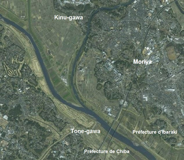 Japan: aerial view of the confluence point of the Kinu and Tone river in Moriya (Ibaraki prefecture).